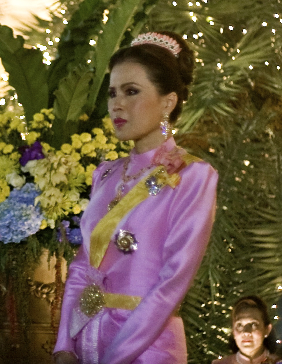 HRH Princess Maha Chakri Sirindhorn and Princess Ubolratana Rajakanya at the Royal Thai Government House on December 7, 2009, at a gala dinner (งานสโมสรสันนิบาต) hosted by the goverment in honour of HM the King's birthday. (The Official Site of The Prime Minister of Thailand Photo by พีรพัฒน์ วิมลรังครัตน์)